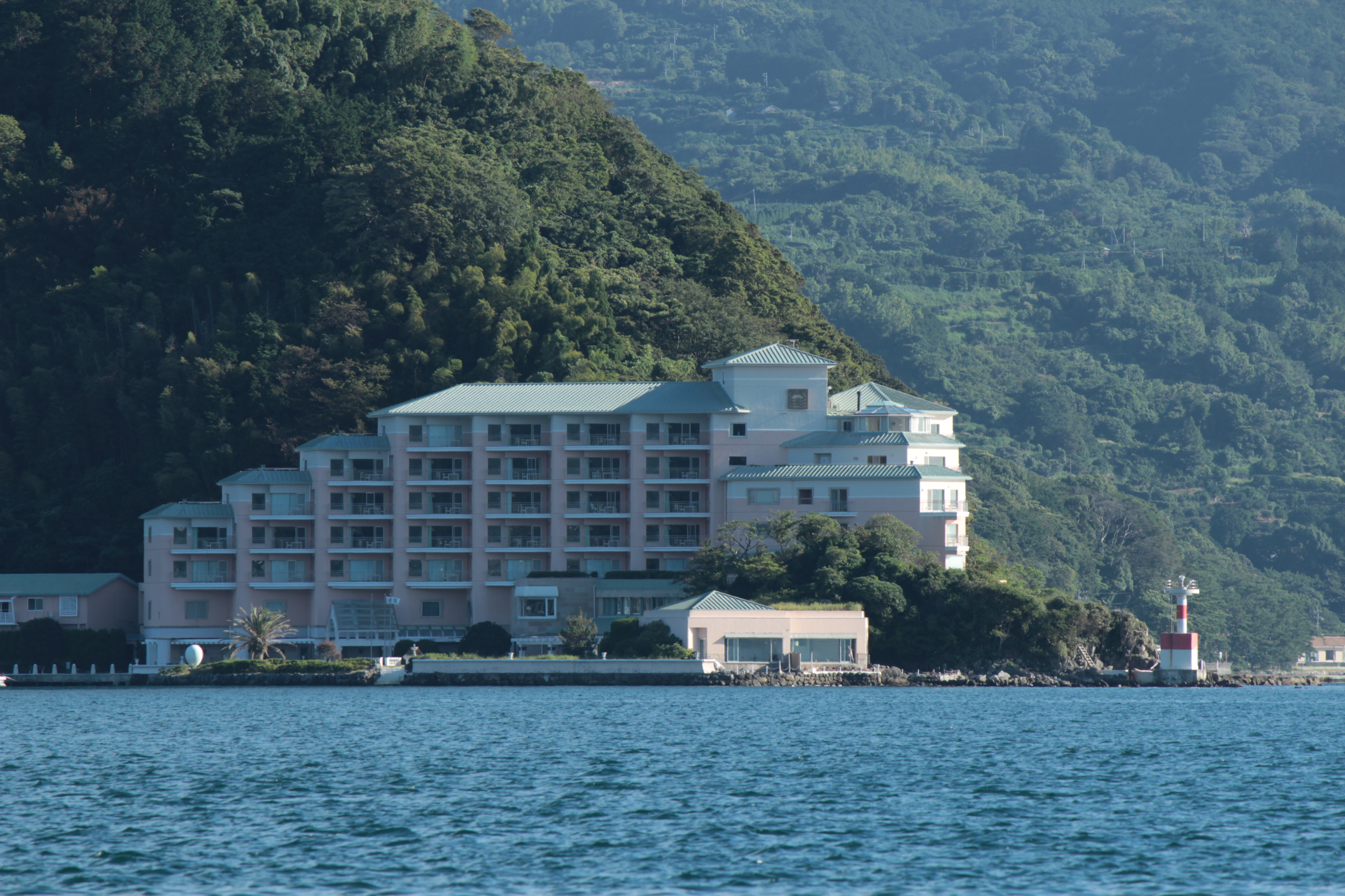 Awashima Hotel in Iwashima Island, Numazu, Shizuoka Prefecture, Japan.